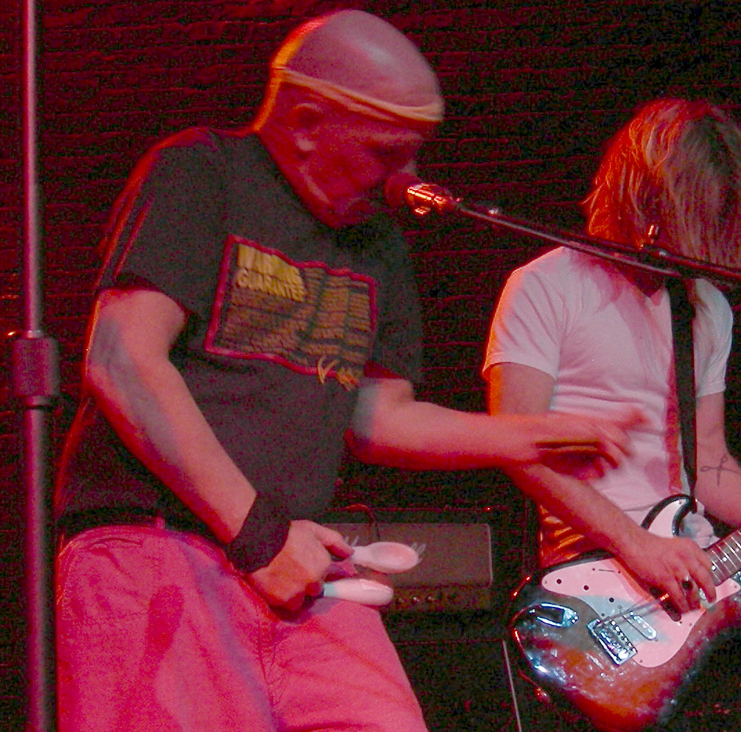 Artis the Spoonman playing with Jeff Rouse, Josh LaBelle, Jeff Angell and Leif Andersen in a "house band" at the tail end of the Moore 100 Open House Celebration, celebration of the 100th anniversary of the Moore Theatre, Seattle, Washington.